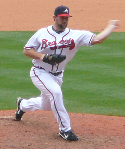 Please attribute this photo by name if used in places other than Wikipedia. 07:12, 29 May 2008 . . Chrisjnelson . . 442×524 (236 KB)